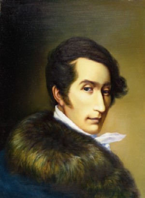 A portrait of the composer Carl Maria von Weber